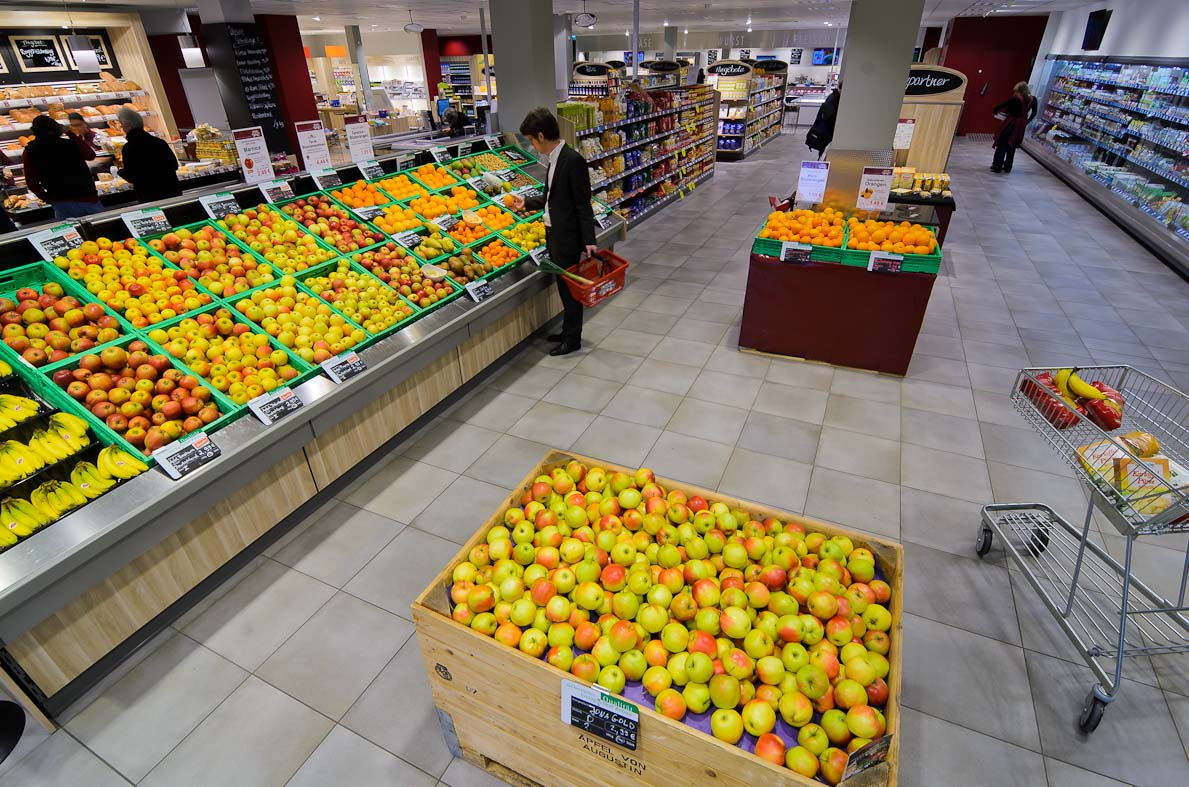 A store of the SuperBioMarkt